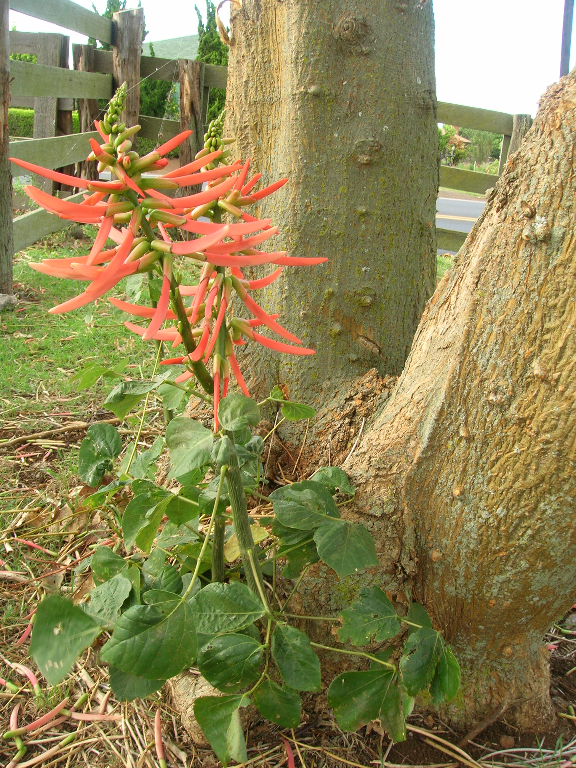 Erythrina berteroana (flowers and leaves). Location: Maui, Makawao